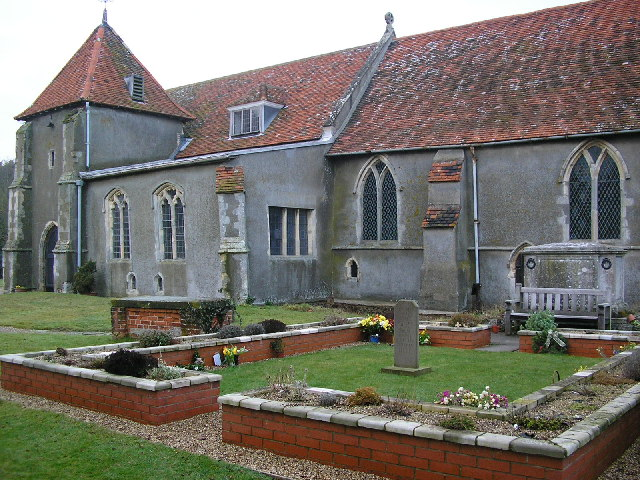 SS Anne and Laurence parish church, Elmstead, Essex